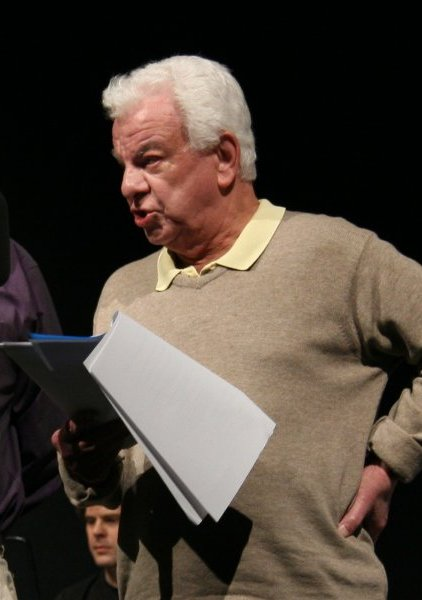 Barry Cryer during a recording of the BBC Radio 4 programme You'll Have Had Your Tea.